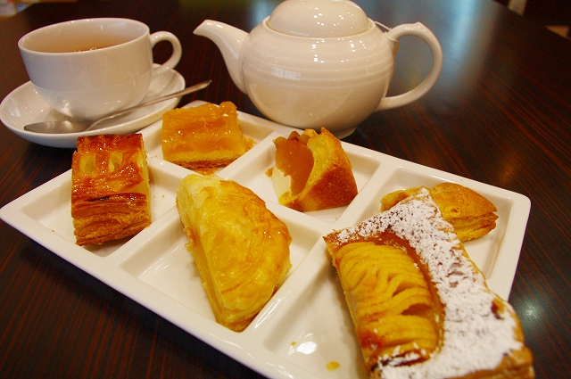 6 apple pies,We can eat these at 500 Yen.